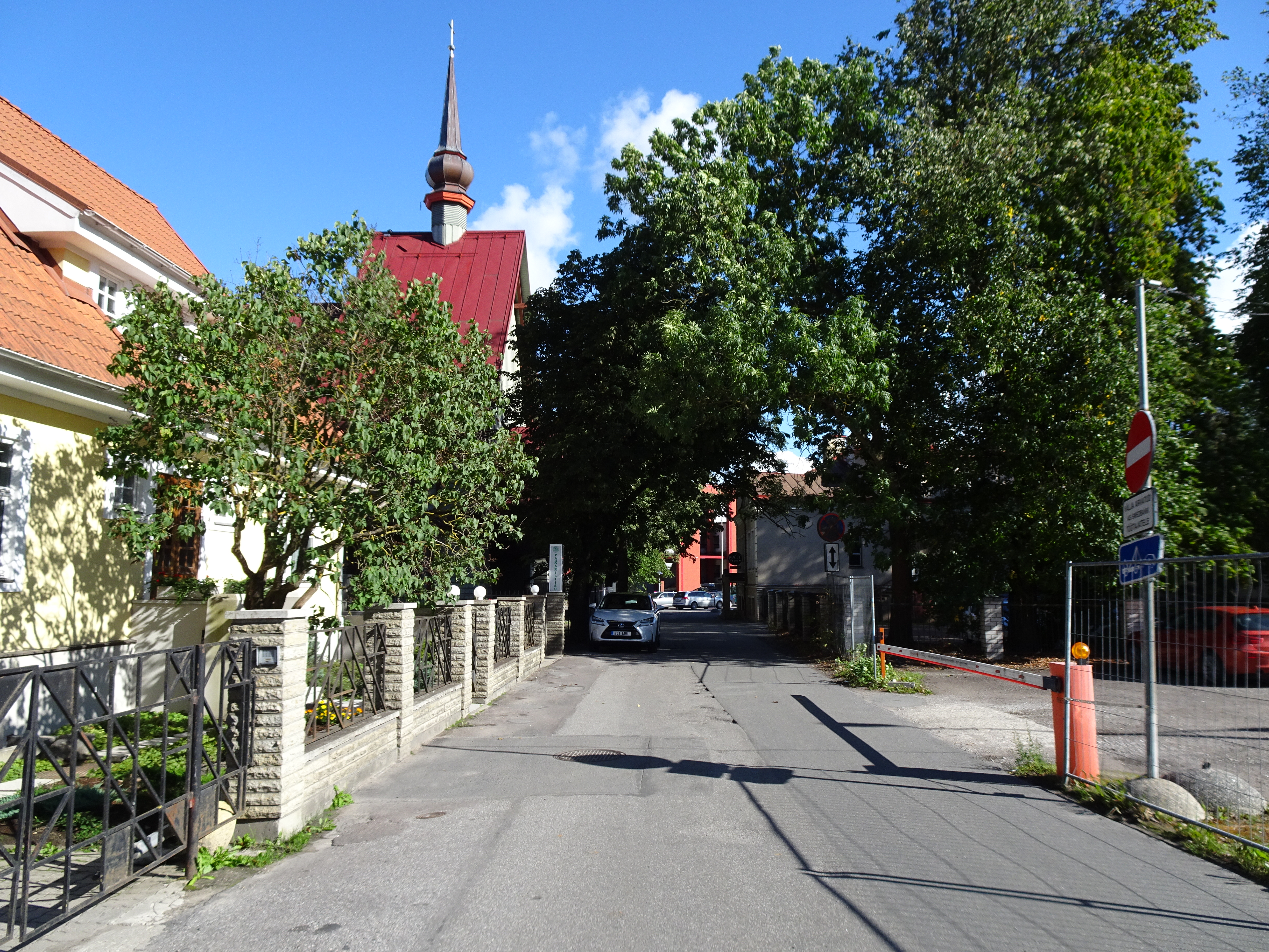 Vana-Veerenni Street in Tallinn, Estonia